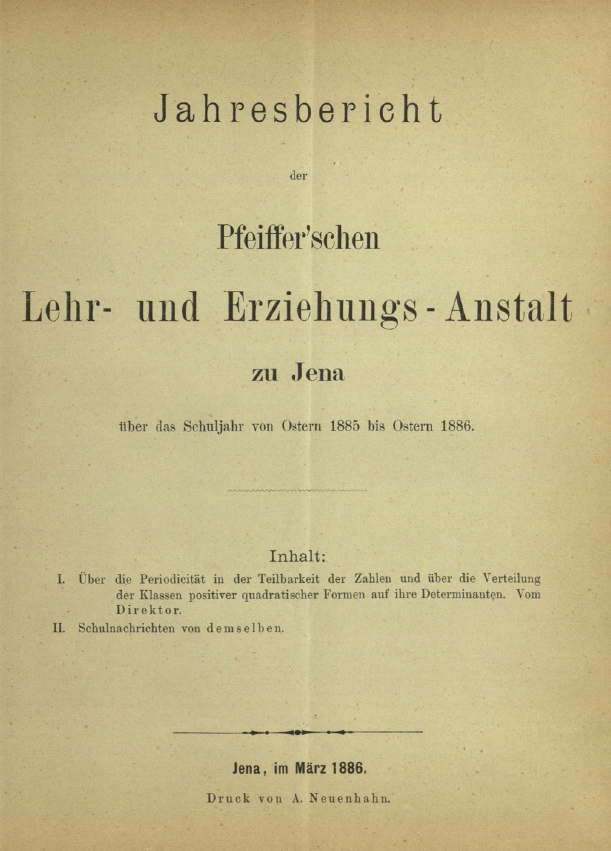 Scan of first page of yearly report of Ernst Pfeiffer on his school in Jena, Germany, 1886.